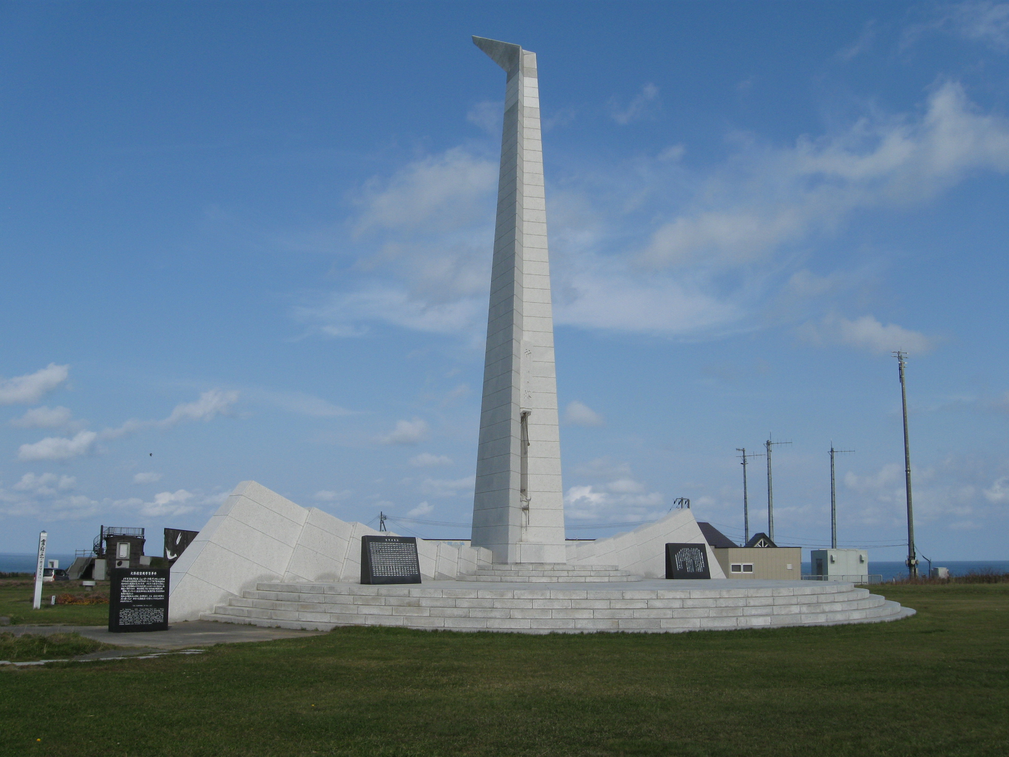 This commemorates the shooting down of the Korean Airlines flight 007 on 1 September 1983. It happened north of Moneron Island west of Sakhalin Island but this is the closest point to there, outside of Russia.